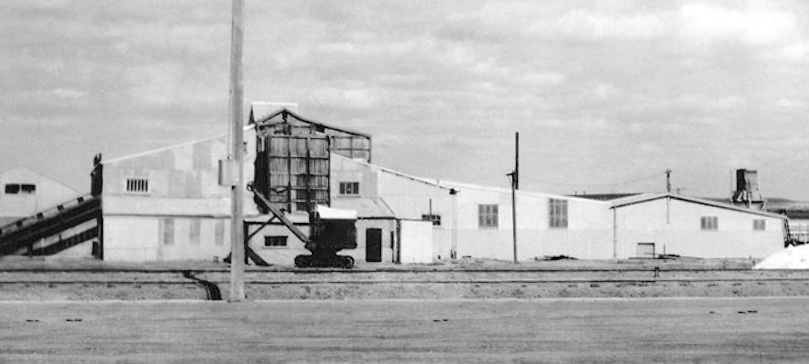 Processing buildings for salt harvesting at Lake Bumbunga, South Australia, about 1940.